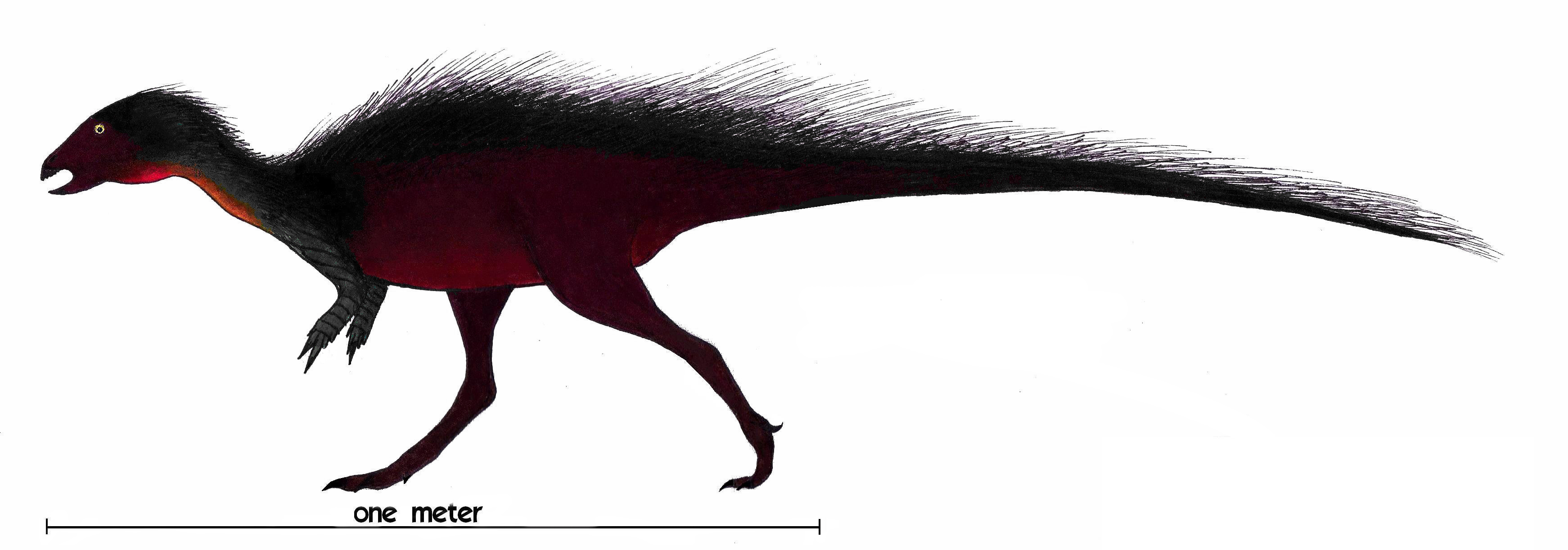 Life restoration of Stormbergia.